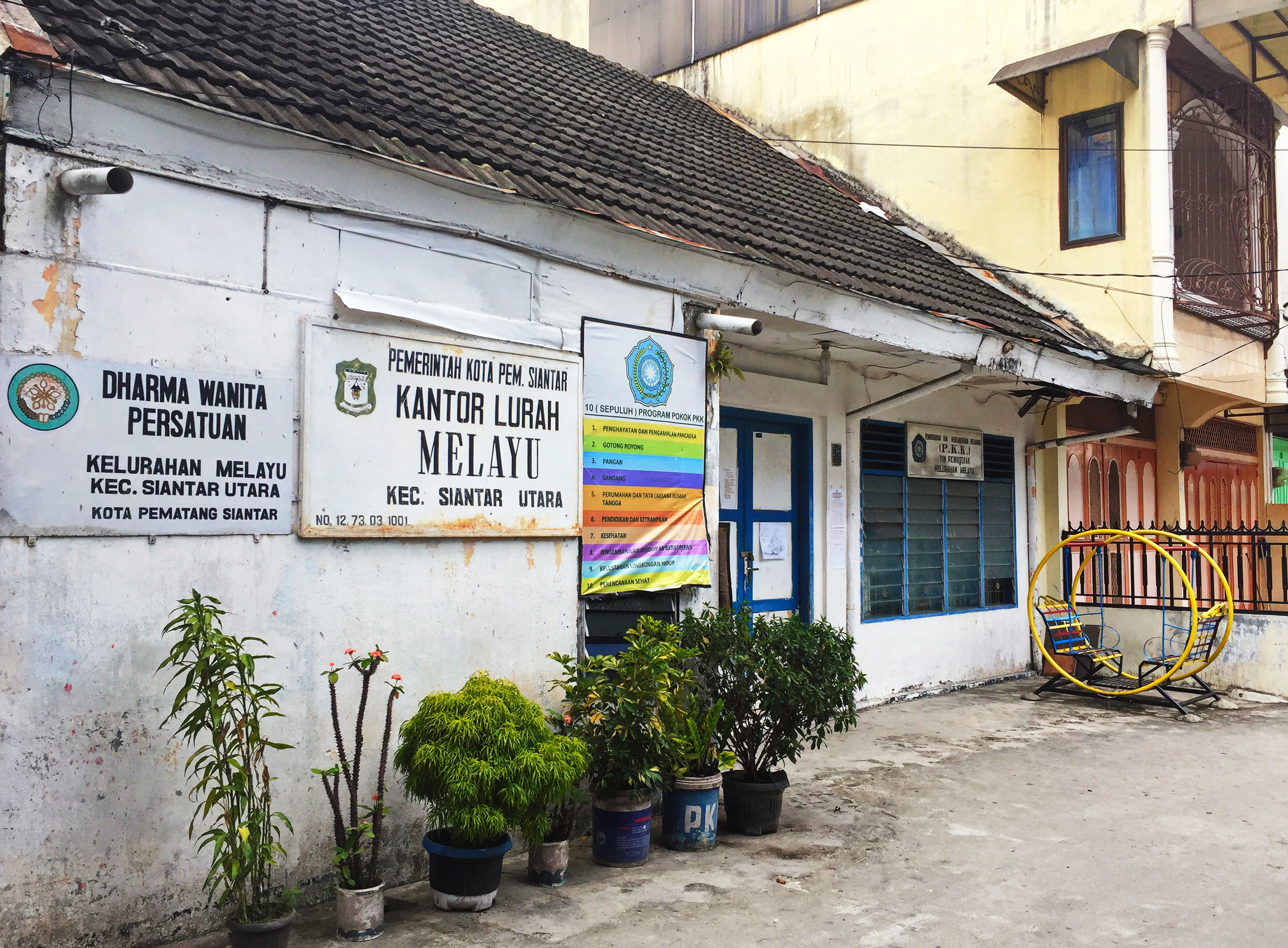 Office of Melayu, Siantar Barat, Pematangsiantar